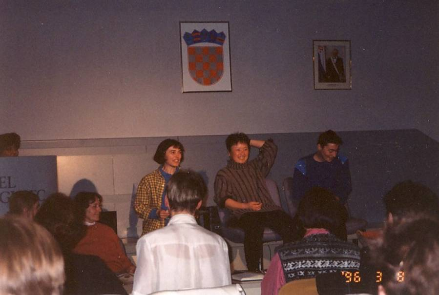 Aiping Wang Shen Qi Session, Stubiške toplice, Croatia